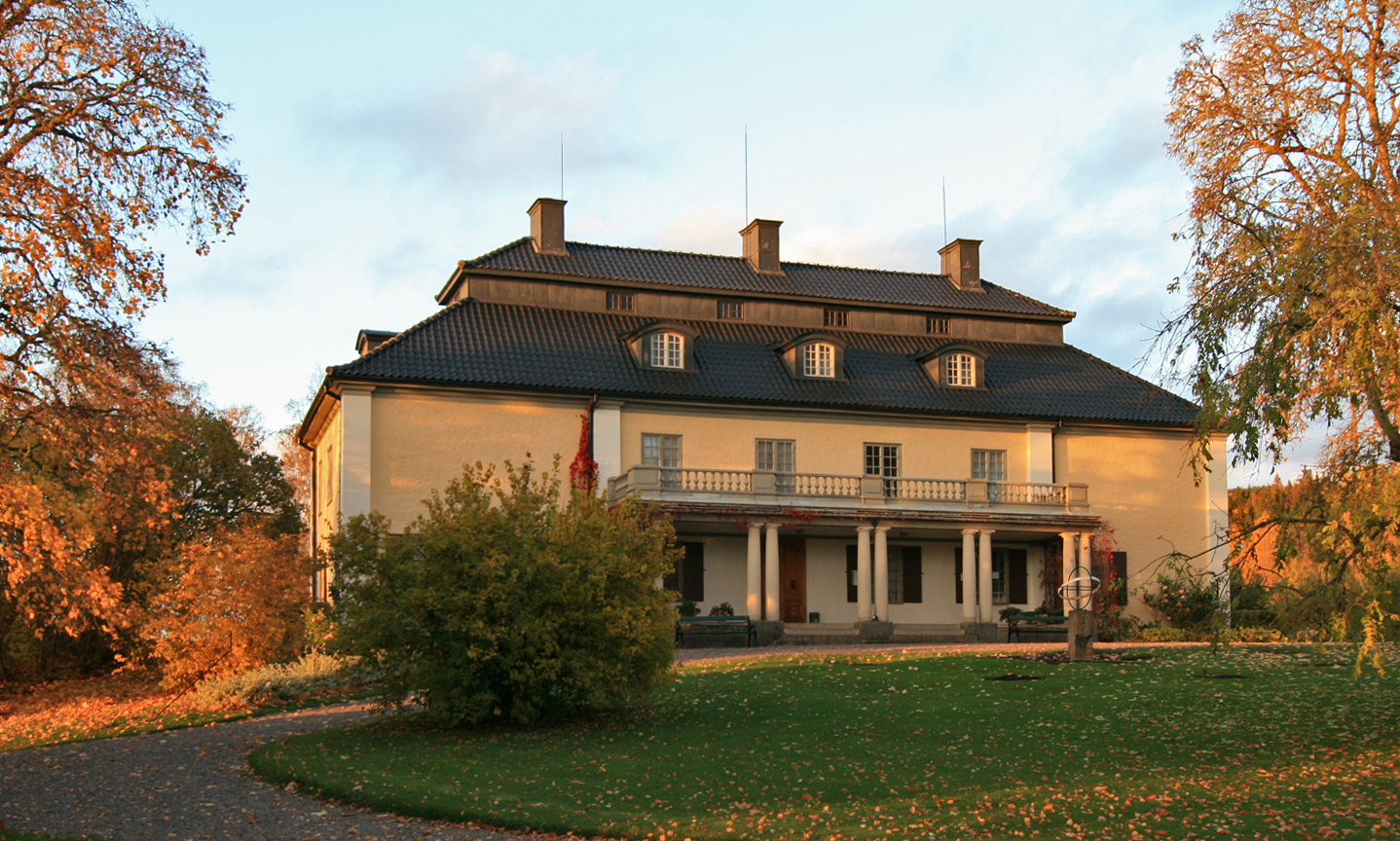 Mårbacka at autumn.